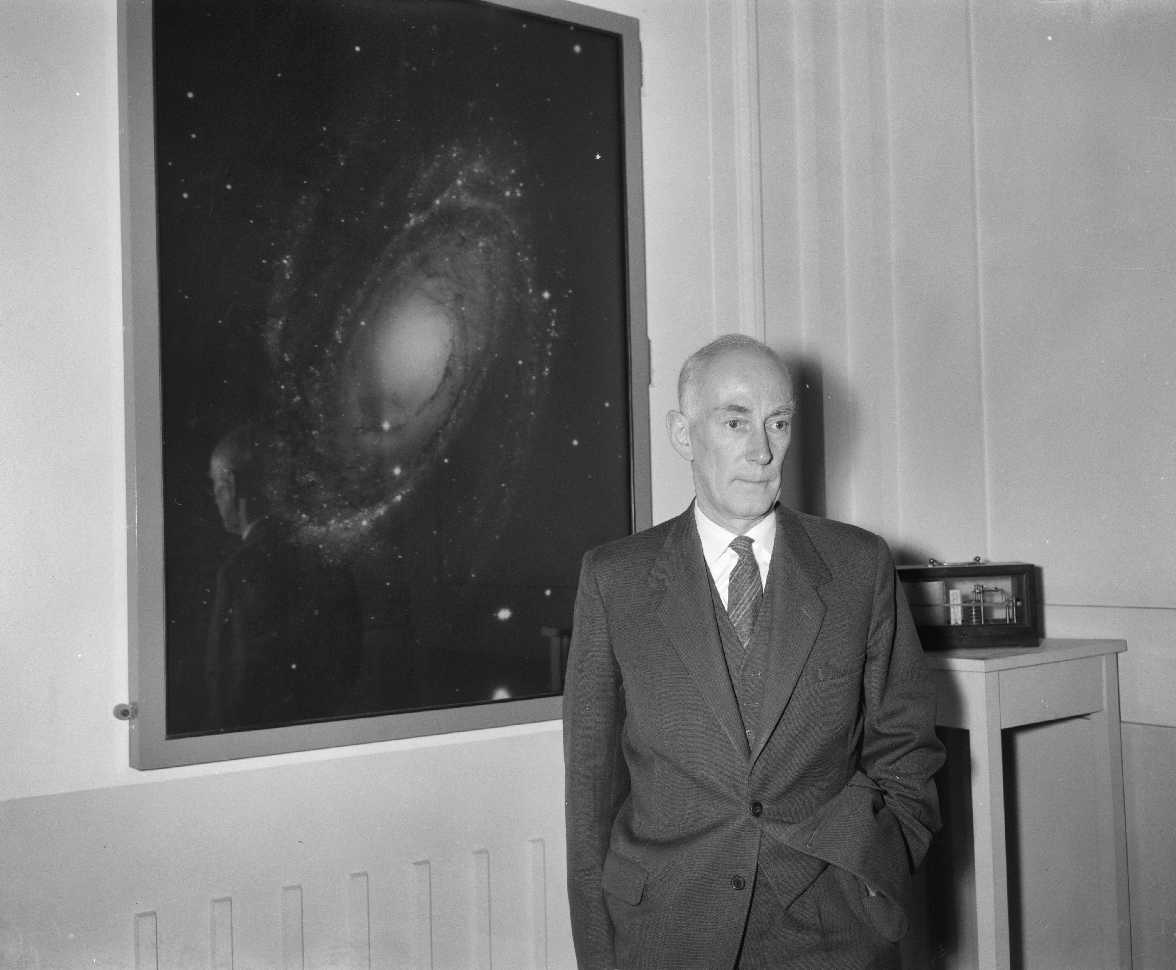 Jan Oort, professor astronomy Leiden University, in the Leiden Sterrewacht (May 1961). Poster of the spiral galaxy M81 in the constellation Ursa Major. Hygrometer on the cupboard behind.